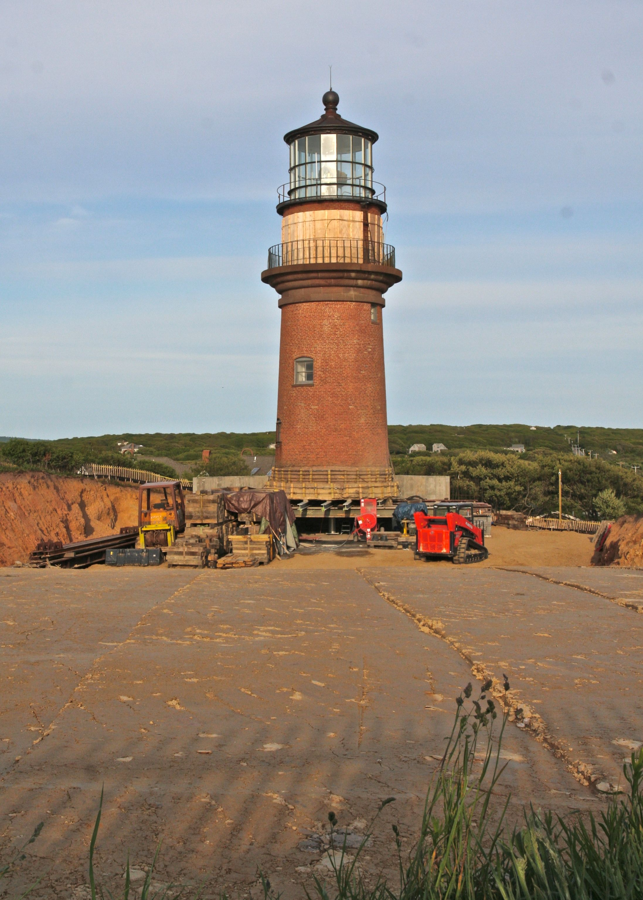 Photo of Gay Head Lighthouse at its new location. From late May, 2015, to early June - the threatened Gay Head Lighthouse was relocated approximately 180-feet back from the eroding cliff's edge. It is estimated that it will be 130 years before the lighthouse is again threatened by erosion. The hill in the foreground is made of semi-impervious compacted fill to control water drainage from the disturbed site and minimize erosion of the clay cliffs. The lighthouse location in this photo sits on steel beams at an elevation that is equal to the light's previous elevation. This ensures that the light's signal will continue to reach its historic navigation destination out to sea. A foundation will be built beneath the raised light and back filled to its previous historic height around the light's granite stone foundation.